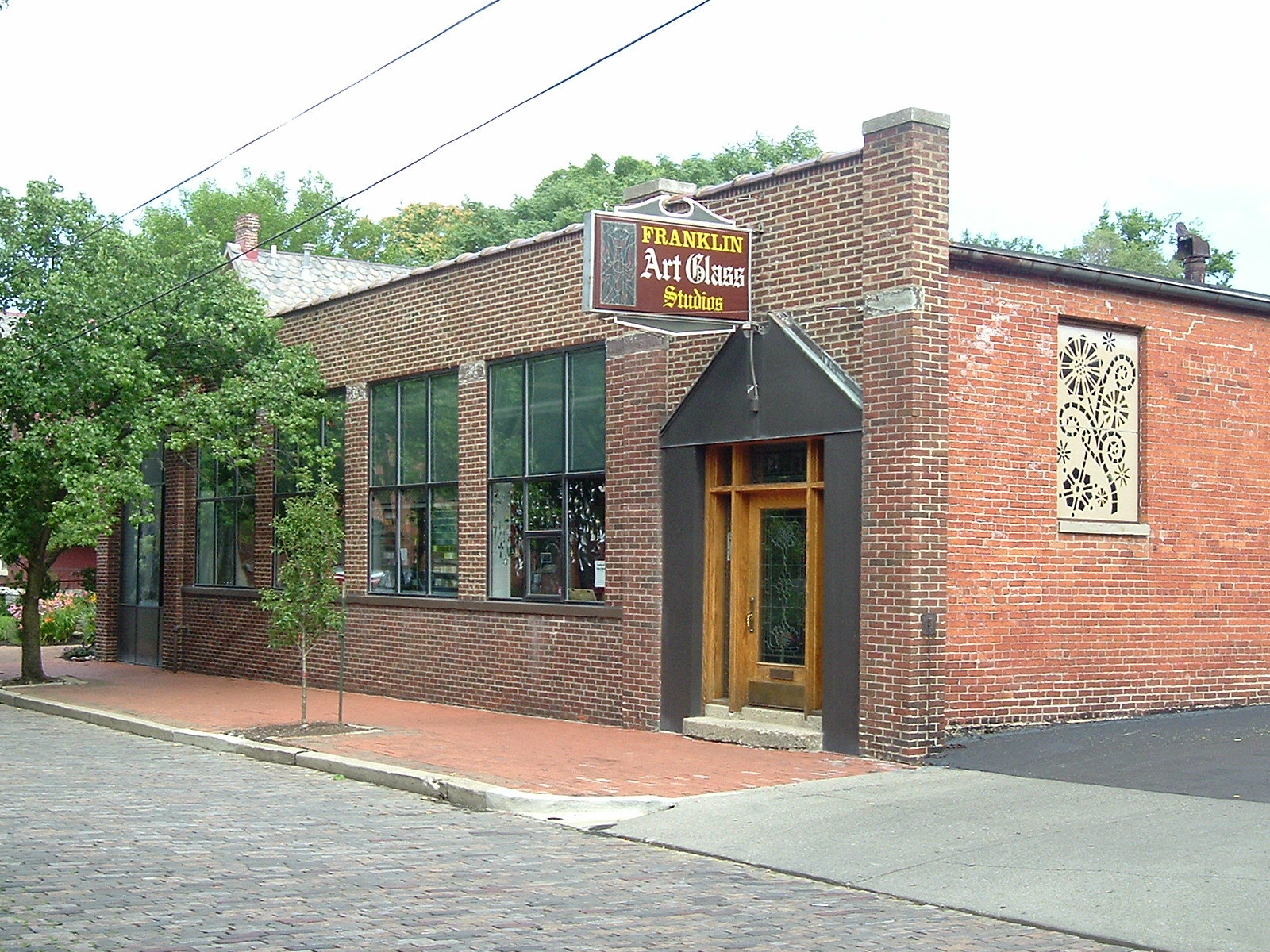 Exterior picture of Franklin Art Glass Studios on 222 East Sycamore Street.